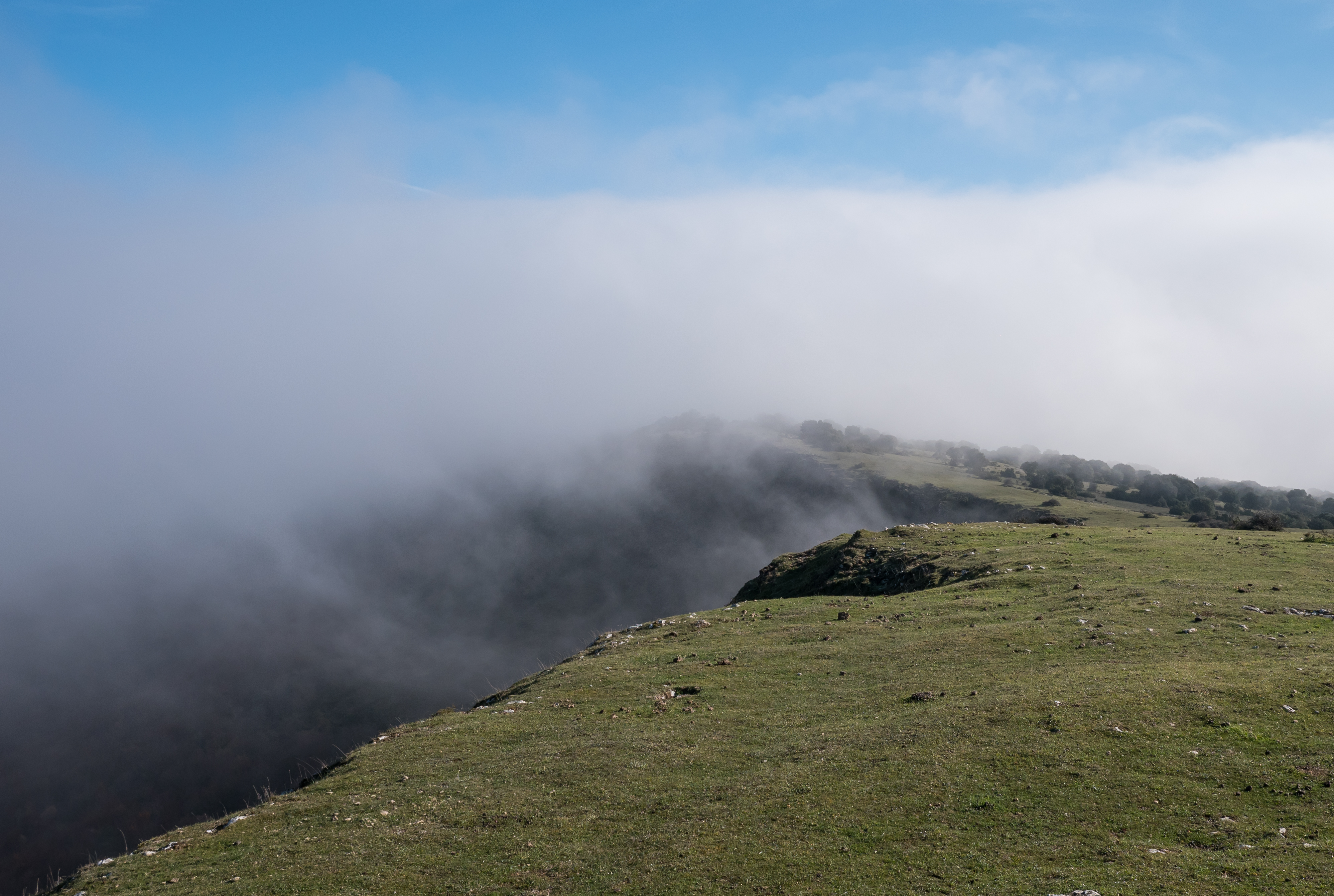 Fog breaking up at Ganalto summit, Badaia mountain range. Basque Country, Spain